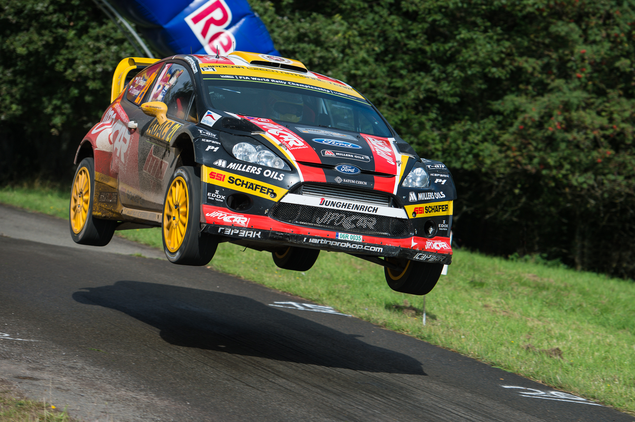 ADAC Rallye Deutschland 2014,FIA,FIA World Rally Championship,Ford Fiesta RS WRC,Gina,Jan Tomanek,Jipocar Czech National Team,Martin Prokop,Motorsport,Panzerplatte,Rally,Rallye,SS10,WP10,WRC